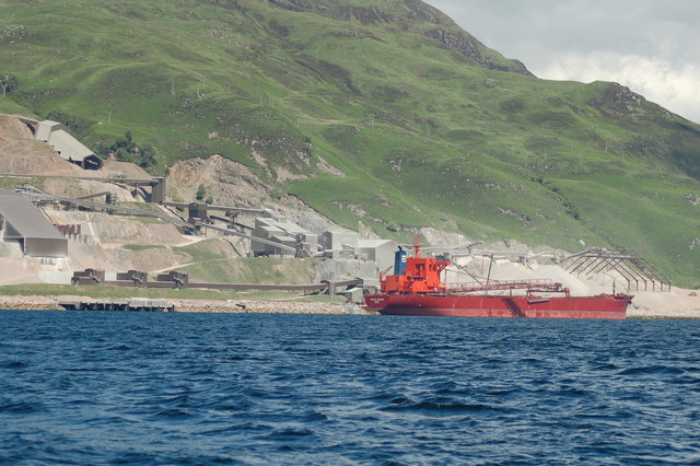 Glensanda quarry jetty, Loch Linnhe. Yeoman's Glensanda superquarry is one of the largest in Europe.